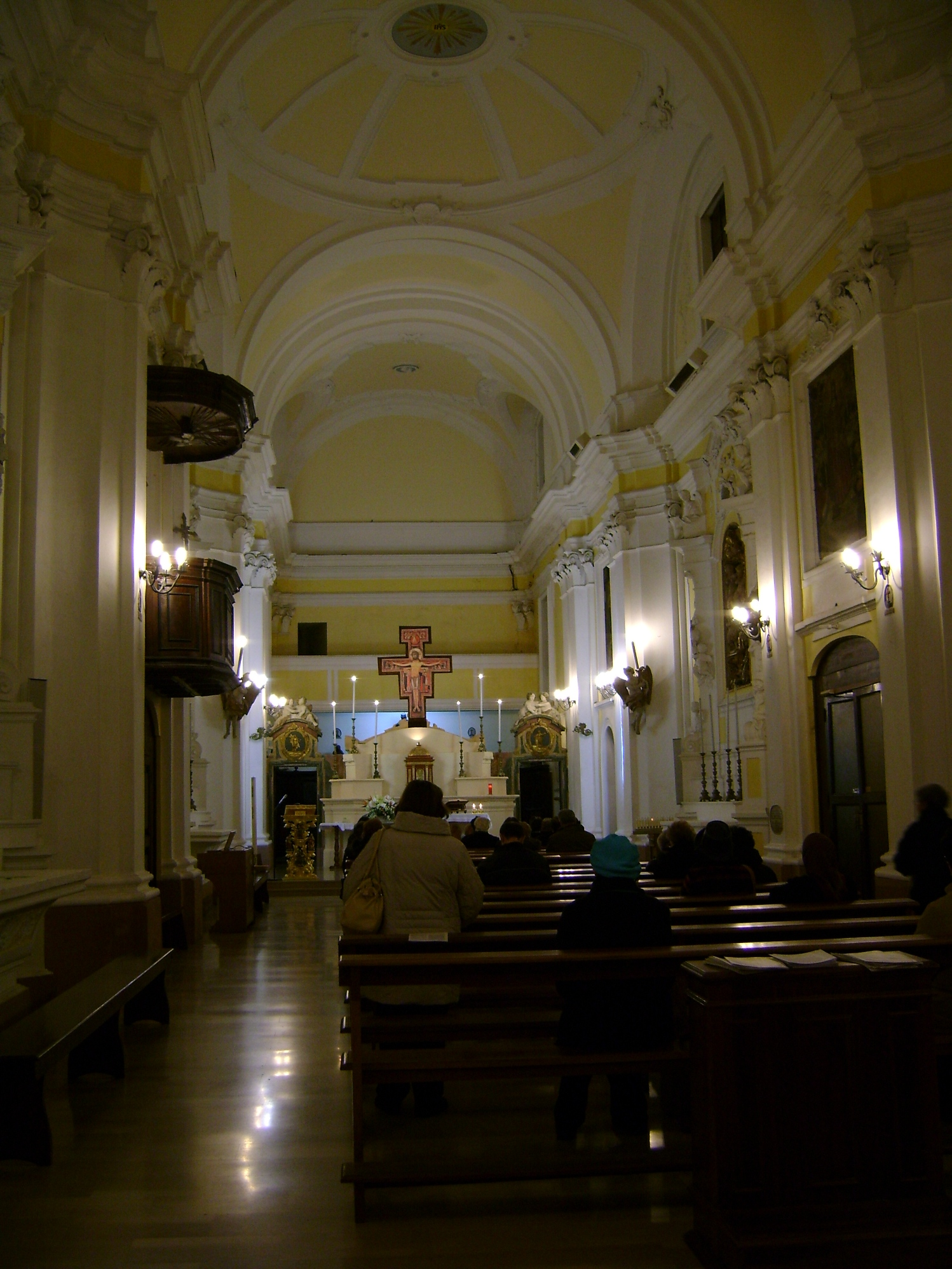 The interior of the church of San Francesco at dusk, Guardiagrele, province of Chieti, Abruzzo